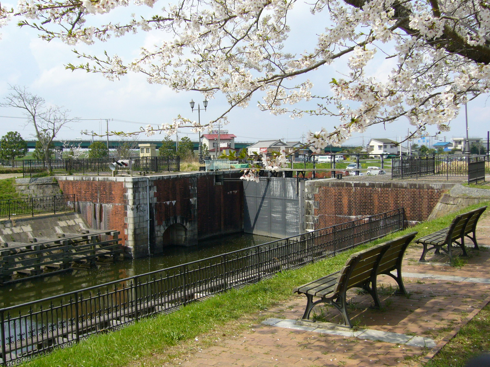 Yokotone Lock seen from Katori City, Chiba Prefecture, Japan